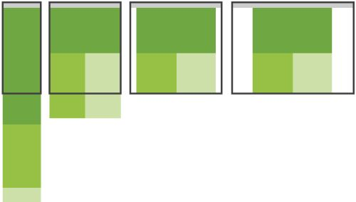 Mostly fluid